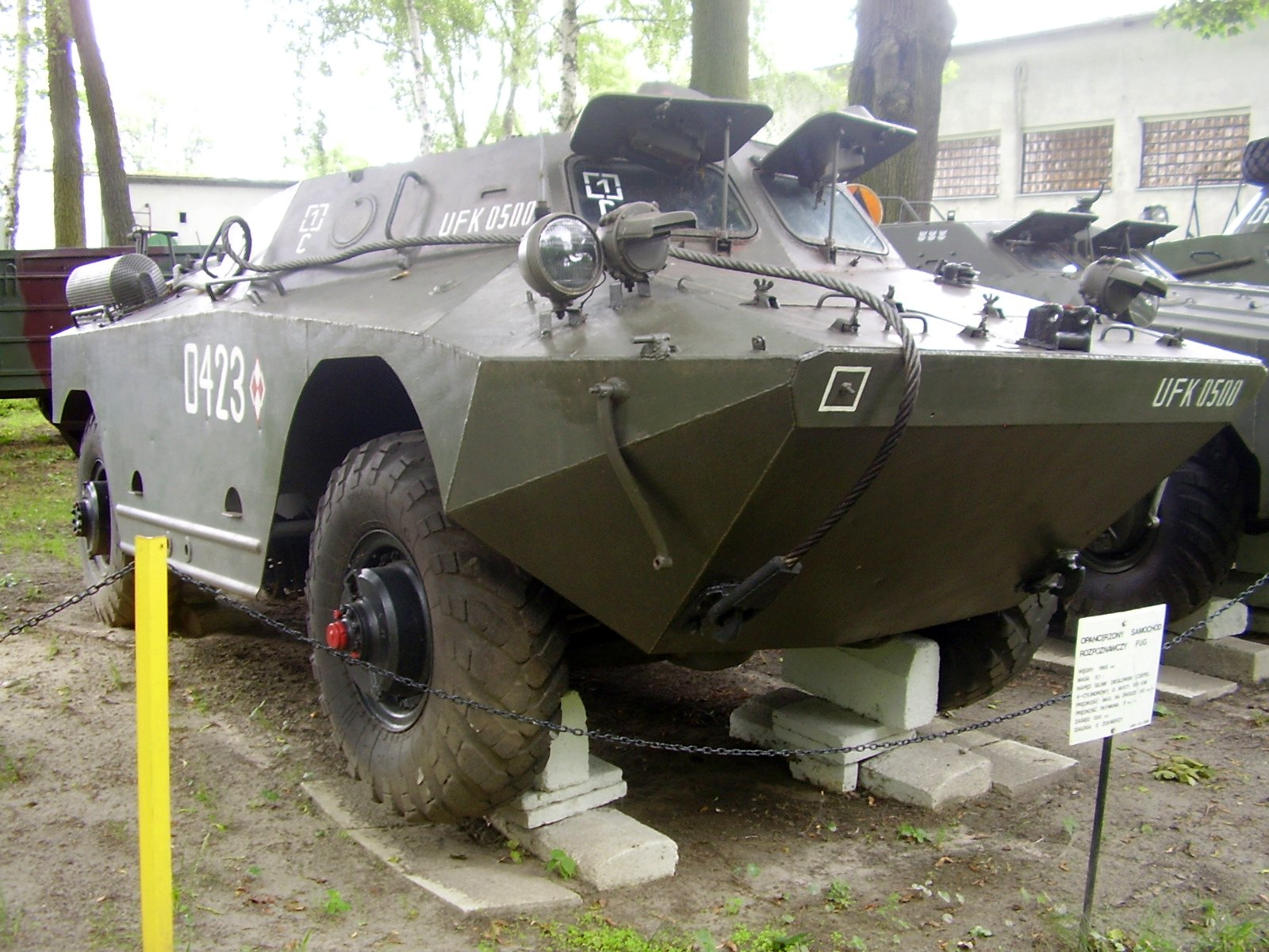 Polish Army's FUG armoured reconnaissance carrier (Hungarian-made)